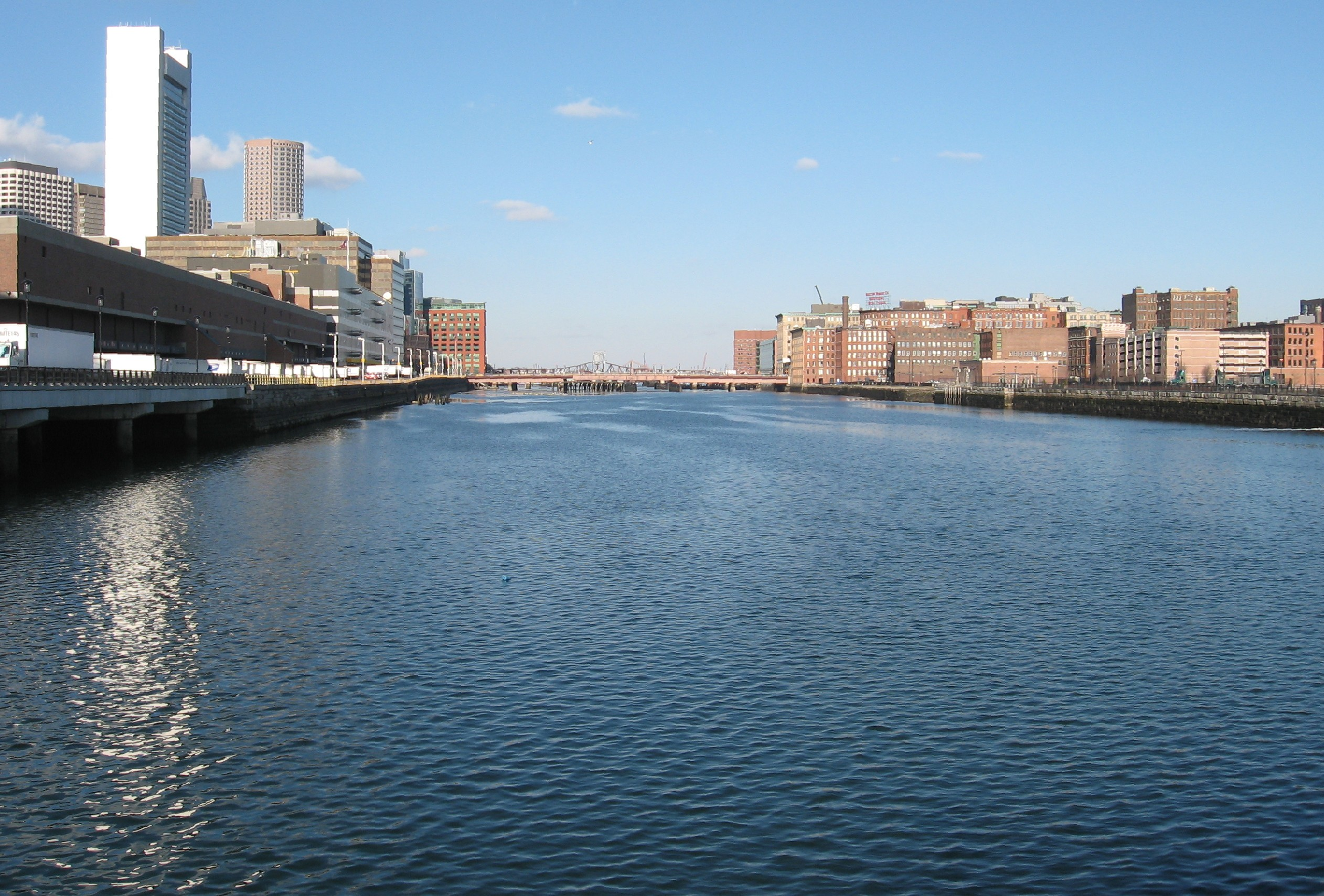 Fort Point Channel, Boston, Massachusetts. Taken from near the south end of the channel (just east of Dorchester Avenue), looking NNE.